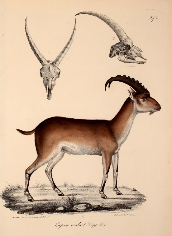 Engraving of walia ibex.